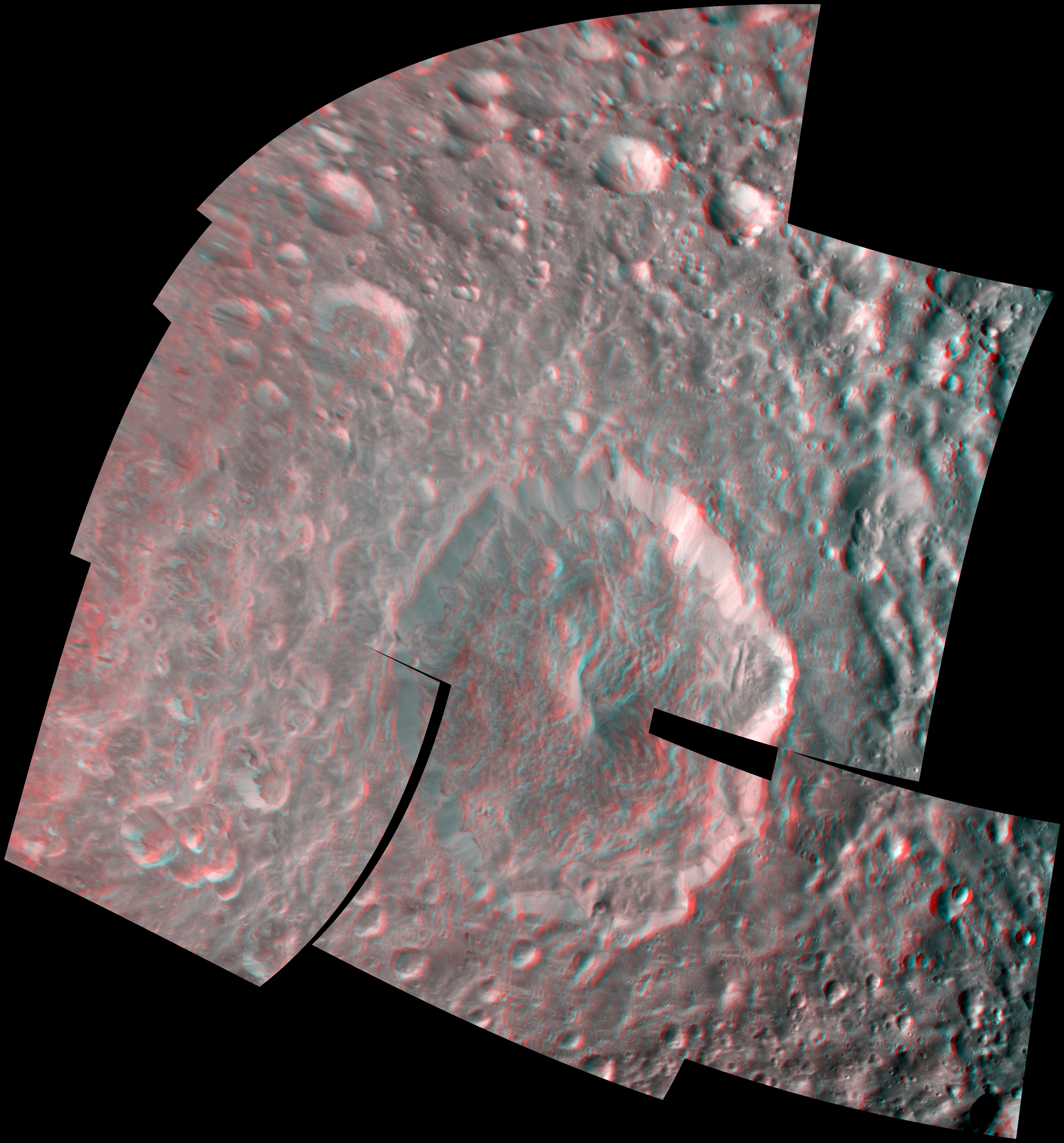 NASA's Cassini spacecraft captured a three-dimensional view of the large Herschel Crater on Saturn's moon Mimas during its closest-ever flyby of the moon. Herschel Crater is 130 kilometers (80 miles) wide and covers most of the bottom center of this image. Scientists continue to study this impact basin and its surrounding terrain (see PIA12569 and PIA12571). This 3-D view is a color composite mosaic made from 14 different black and white images that were taken from slightly different viewing angles. The images were re-projected to a simple cylindrical projection. The images were combined so that the viewer's left and right eye, respectively and separately, see a left and right image of the black and white stereo pair when viewed through red-blue glasses. This view is centered on terrain at 11 degrees north latitude, 122 degrees west longitude. This view looks toward the hemisphere of Mimas that leads in its orbit around Saturn. Mimas is 396 kilometers (246 miles) across. North on Mimas is up. The images were taken in visible light with Cassini's spacecraft narrow-angle camera on Feb. 13, 2010. The view was acquired at a distance of approximately 21,000 kilometers (13,000 miles) from Mimas. Image scale is 92 meters (302 feet) per pixel. The Cassini-Huygens mission is a cooperative project of NASA, the European Space Agency and the Italian Space Agency. The Jet Propulsion Laboratory, a division of the California Institute of Technology in Pasadena, manages the mission for NASA's Science Mission Directorate in Washington. The Cassini orbiter and its two onboard cameras were designed, developed and assembled at JPL. The imaging team is based at the Space Science Institute, Boulder, Colo. For more information about the Cassini-Huygens mission visit and The Cassini imaging team homepage is at